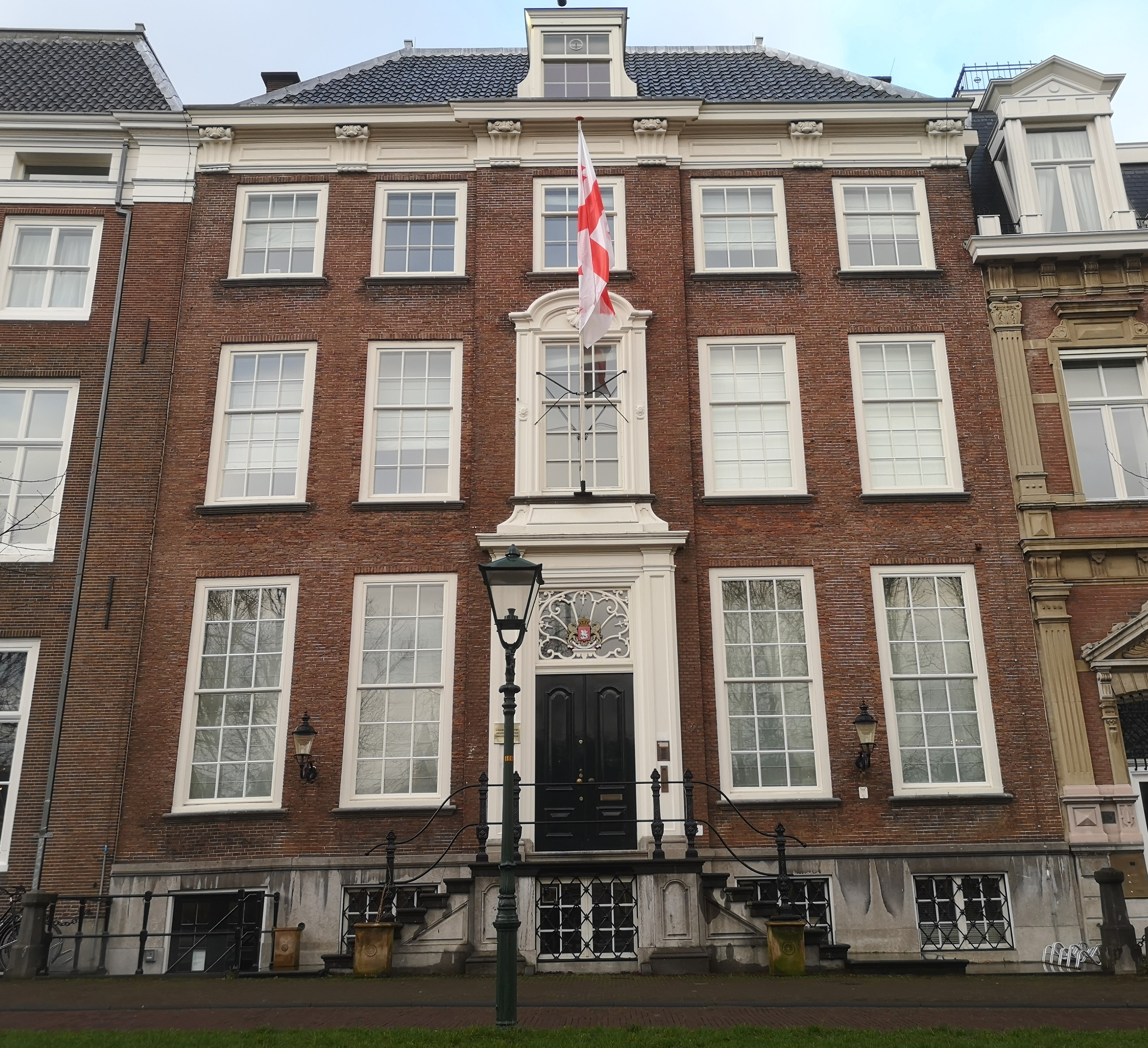 Embassy building in The Hague